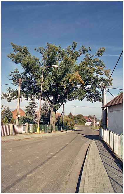 Protected oak (Quercus robur) in Třesovice, Hradec Králové District, Czech Republic